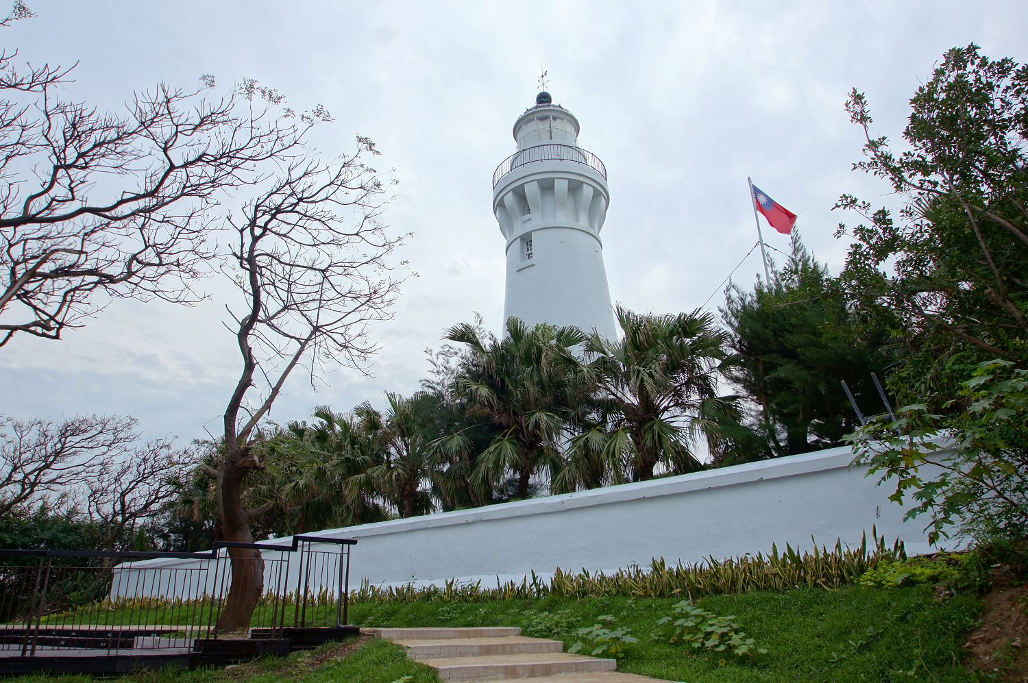 Baishajia Lighthouse